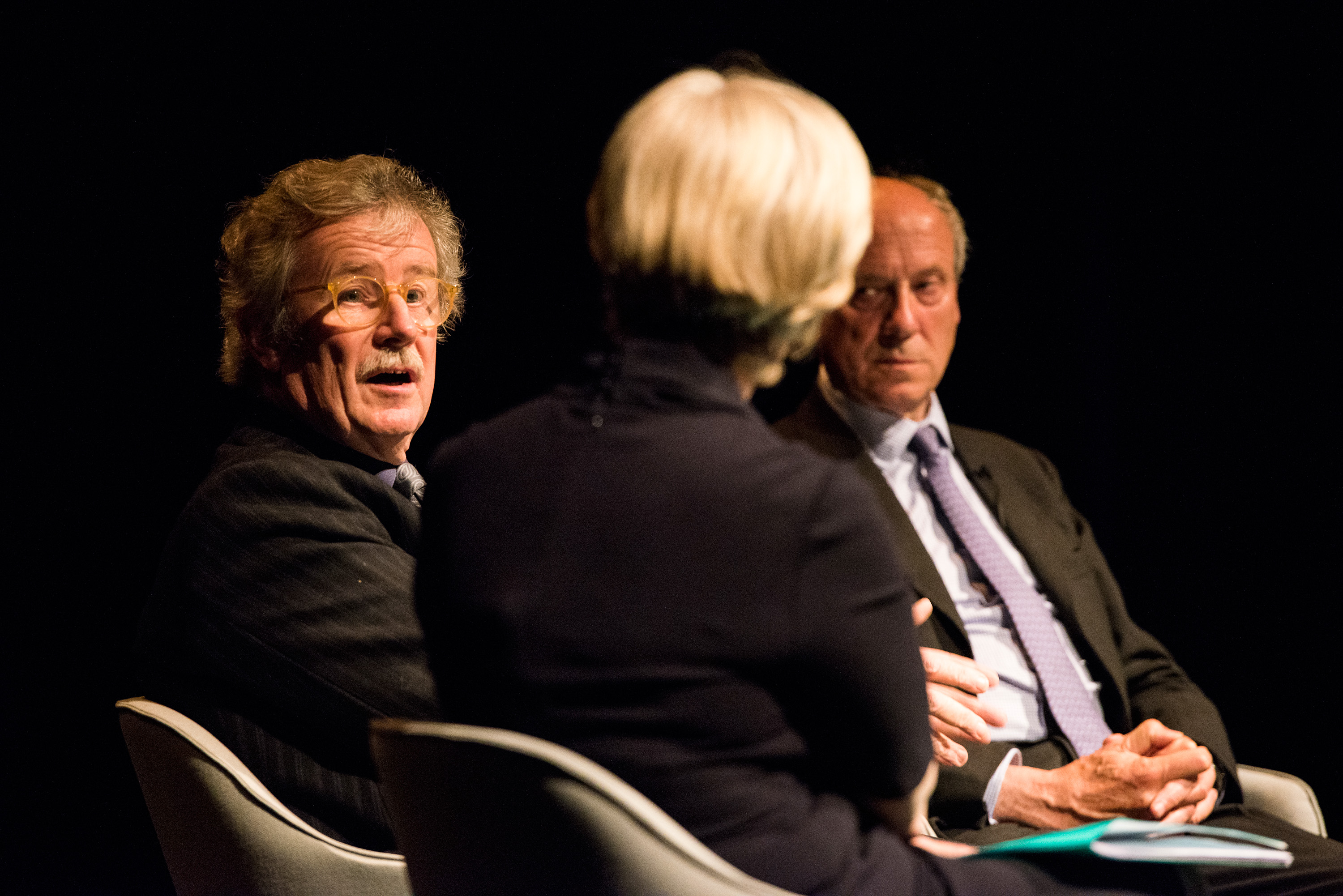 Credit: © Nic Delves-Broughton 29700 The Edge Royal Opening 11 May 2015. The Chancellor, Prince Edward officially opens the new Arts and Management building, The Edge. Also in attendance were Sir Christopher Frayling; Margaret Heffernan; Sir Francis Richards in a discussion panel hosted by Professor Veronica Hope Hailey. The Chancellor tours the building and views various arts, music and dance activities. Joanna McGregor gives a piano recital to the audience. Client: Paula McGrane - Corps Comms